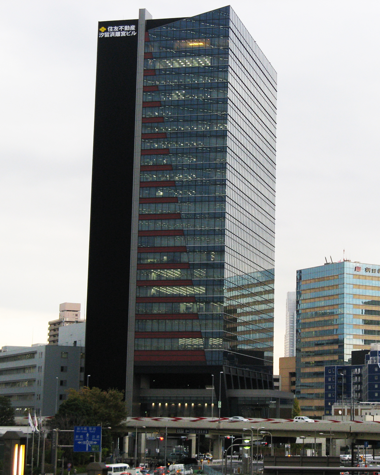 Sumitomo Fudosan Shiodome Hamarikyu Building. I took this photo.